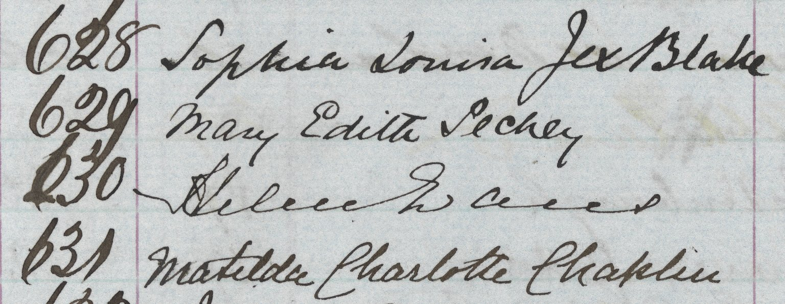 Full record available at: This file was uploaded as part of a GLAMWiki partnership with the University of Edinburgh. This tag does not indicate the copyright status of the attached work. A normal copyright tag is still required. See Commons:Licensing for more information.